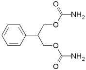 Created by Colin Harkness using BKchem and IrfanView.